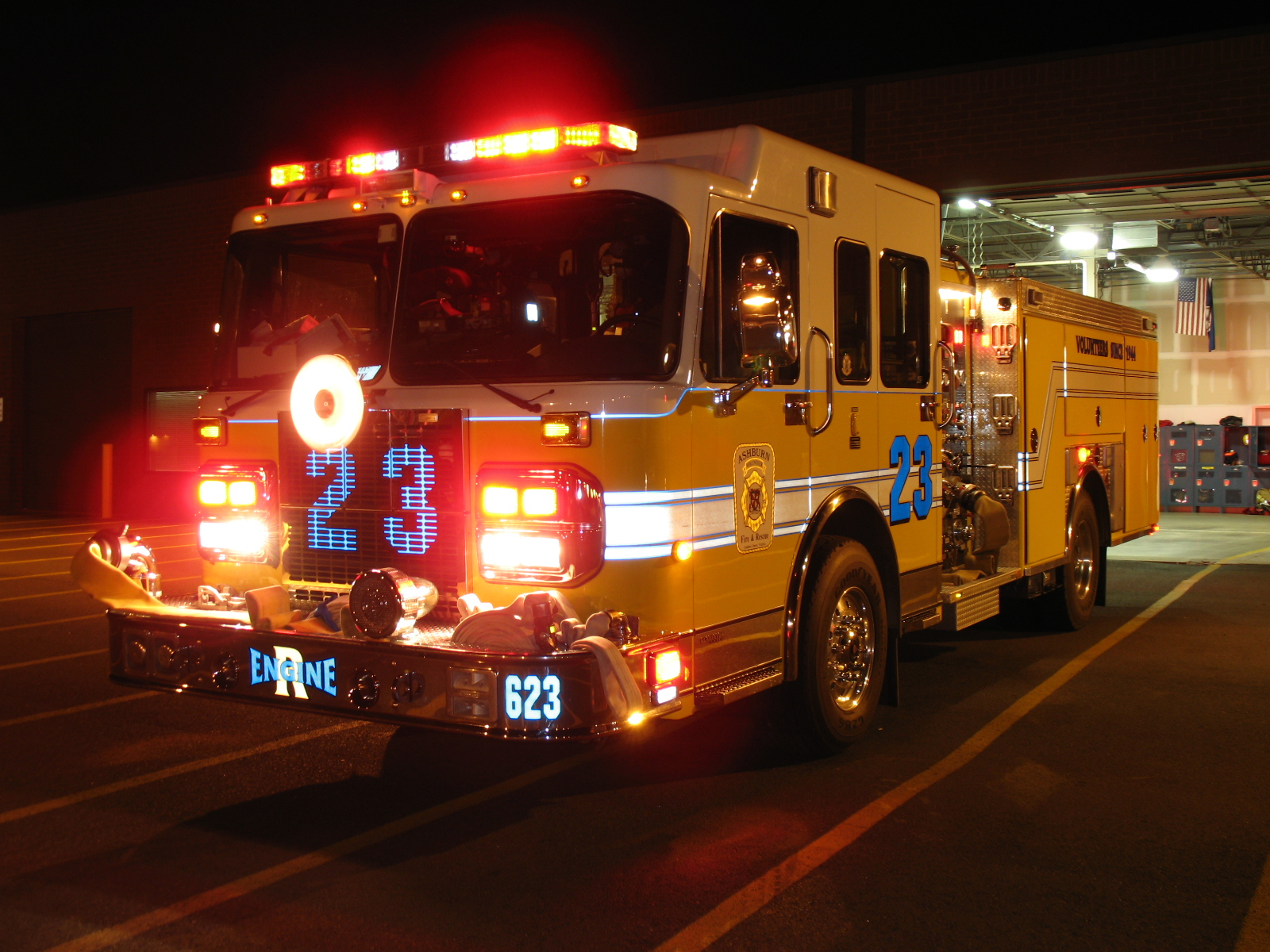 Yellow fire engine no. 23 of Ashburn, Virginia